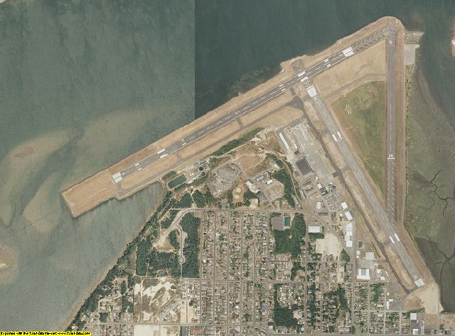 The Southwest Oregon Regional Airport in North Bend, Oregon, United States, adjacent to the city of Coos Bay.